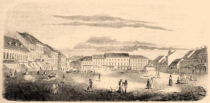 arad